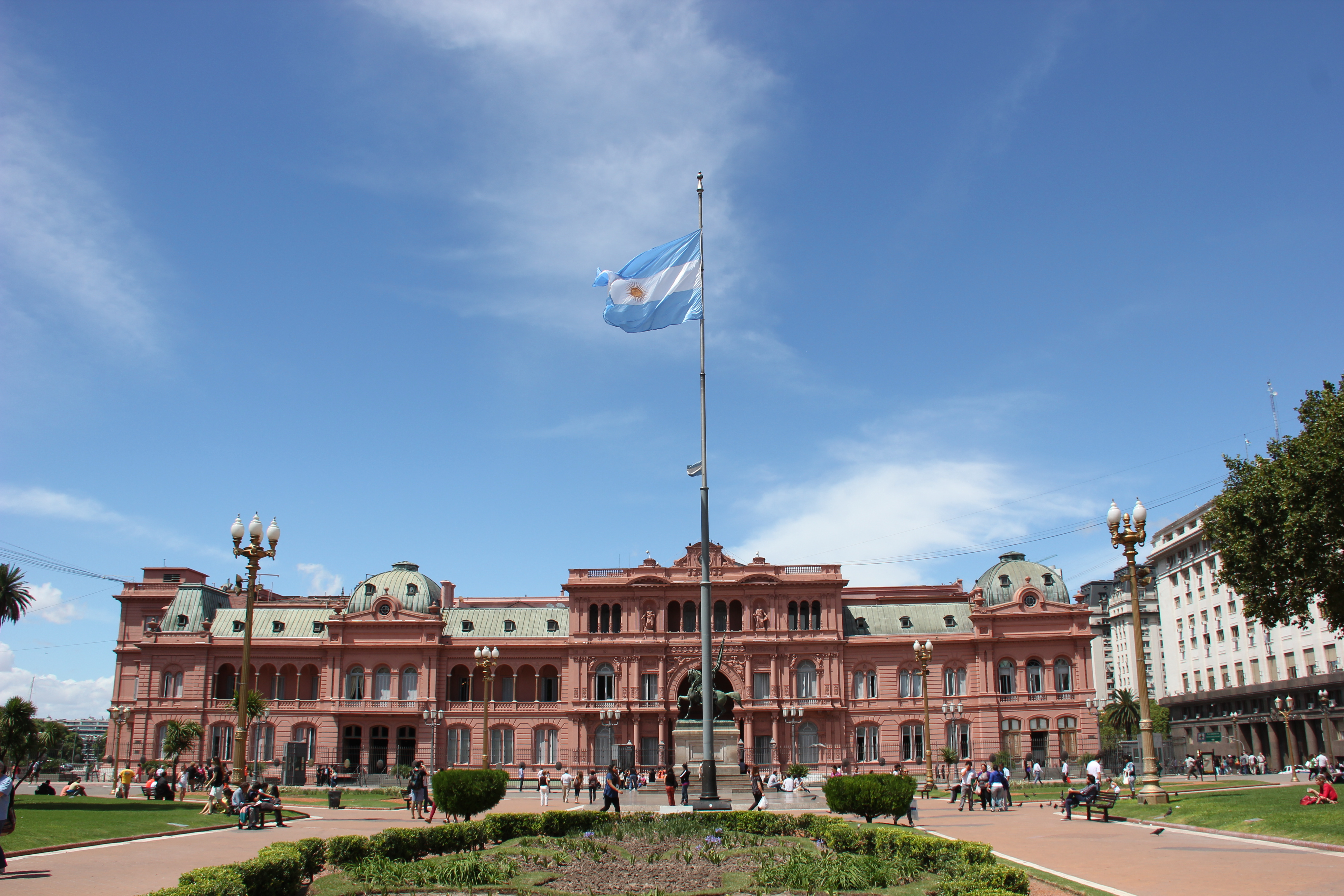 Casa Rosada exterior from Plaza de Mayo. Shot in February 2014.